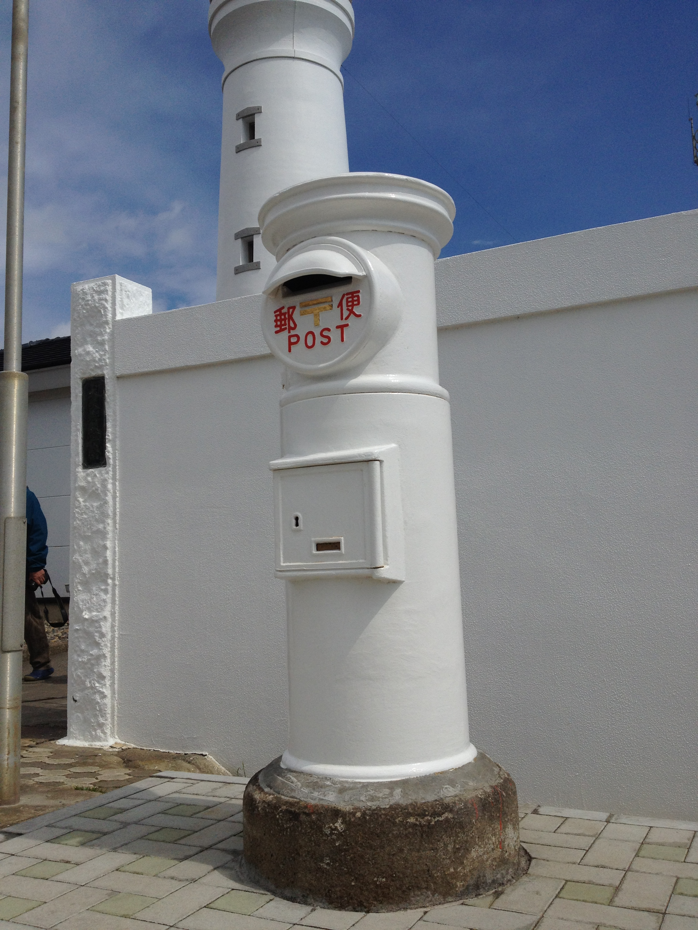 The white post in front of a inubohosaki lighthouse